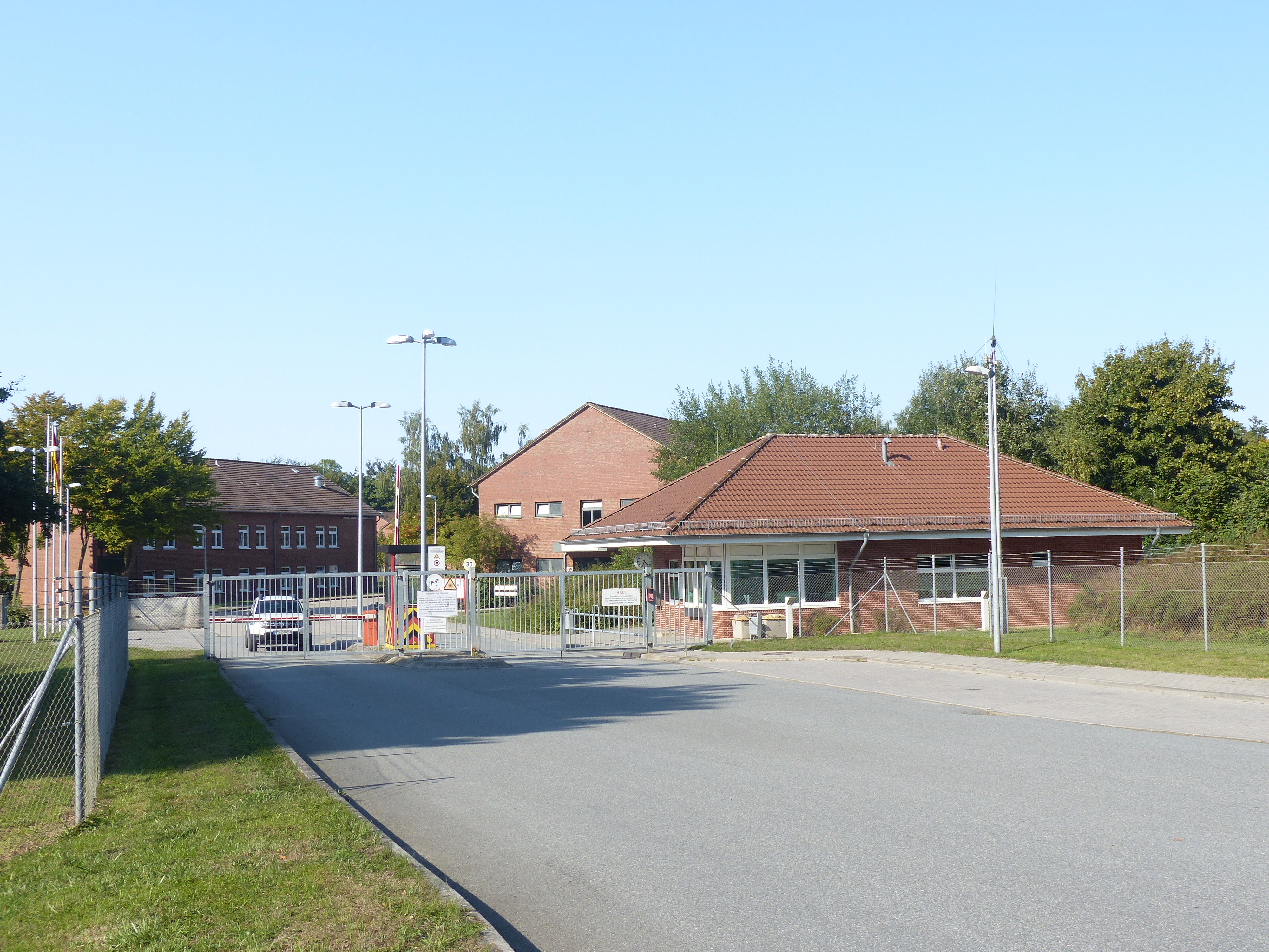 The military shooting range Todendorf, situated in the municipality of Panker